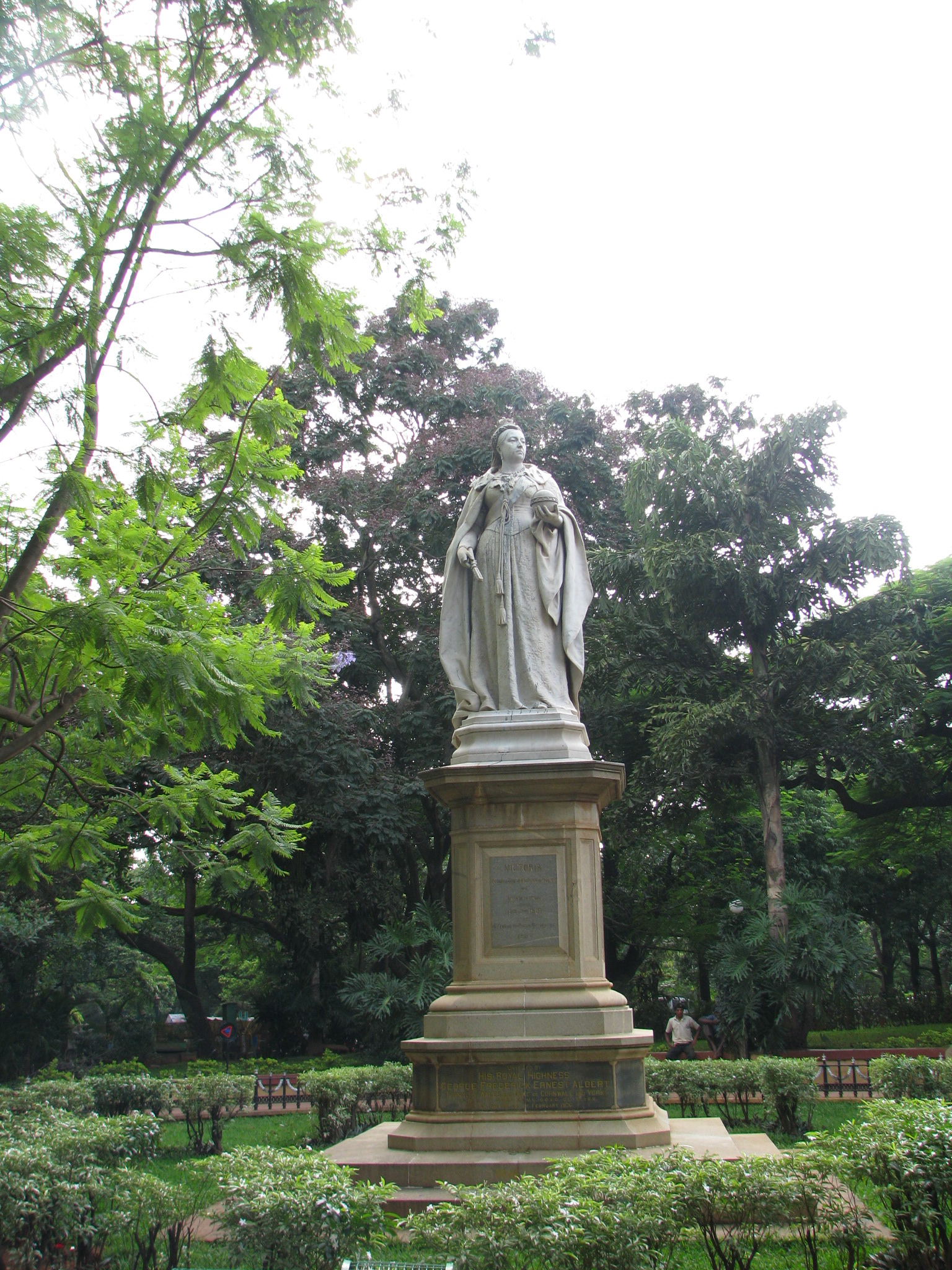 Outer Ring Road Apartments Queen Victoria Statue At cubbon Park